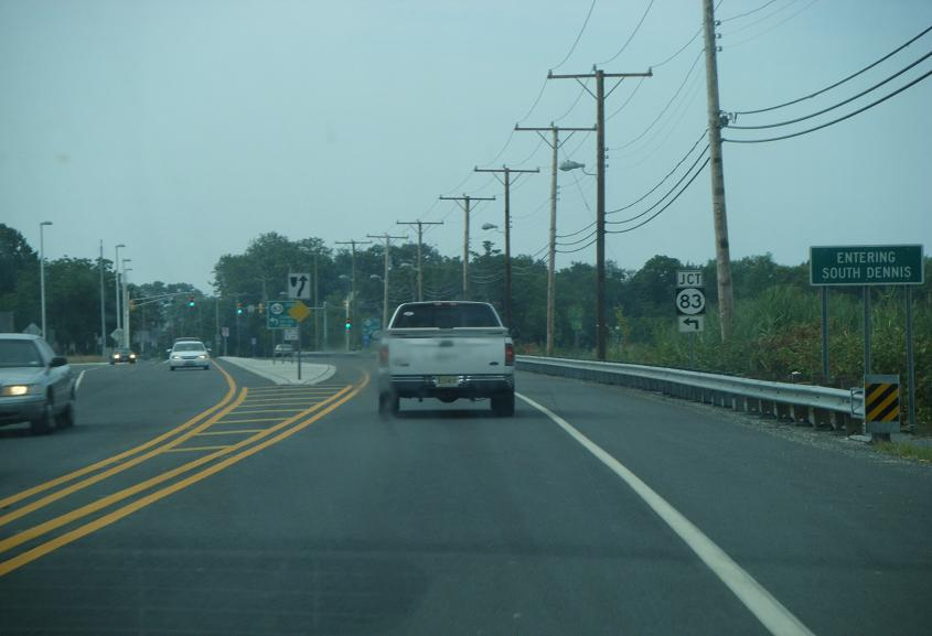 Southbound New Jersey Route 47 approaching the intersection with New Jersey Route 83 in South Dennis, New Jersey